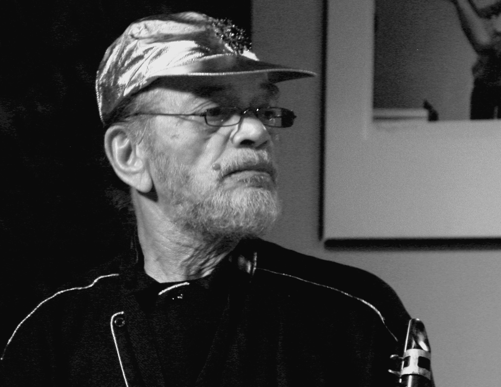 Marshall Allen